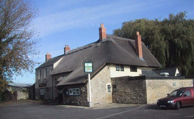 The Perch public house, Binsey, Oxfordshire, seen from the south